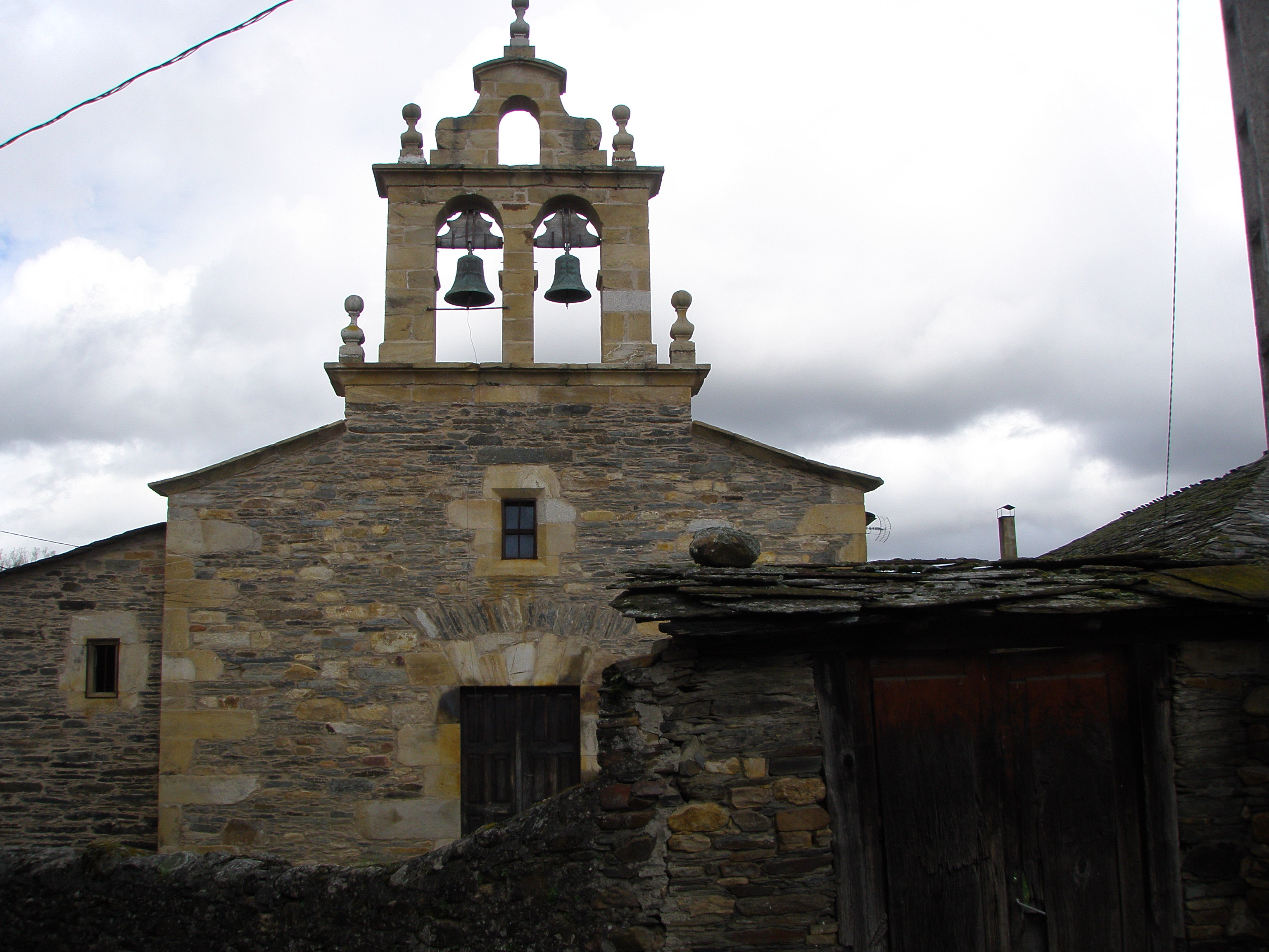 Church in Santalla de Rei, A Pobra do Brollón, Lugo, Spain.